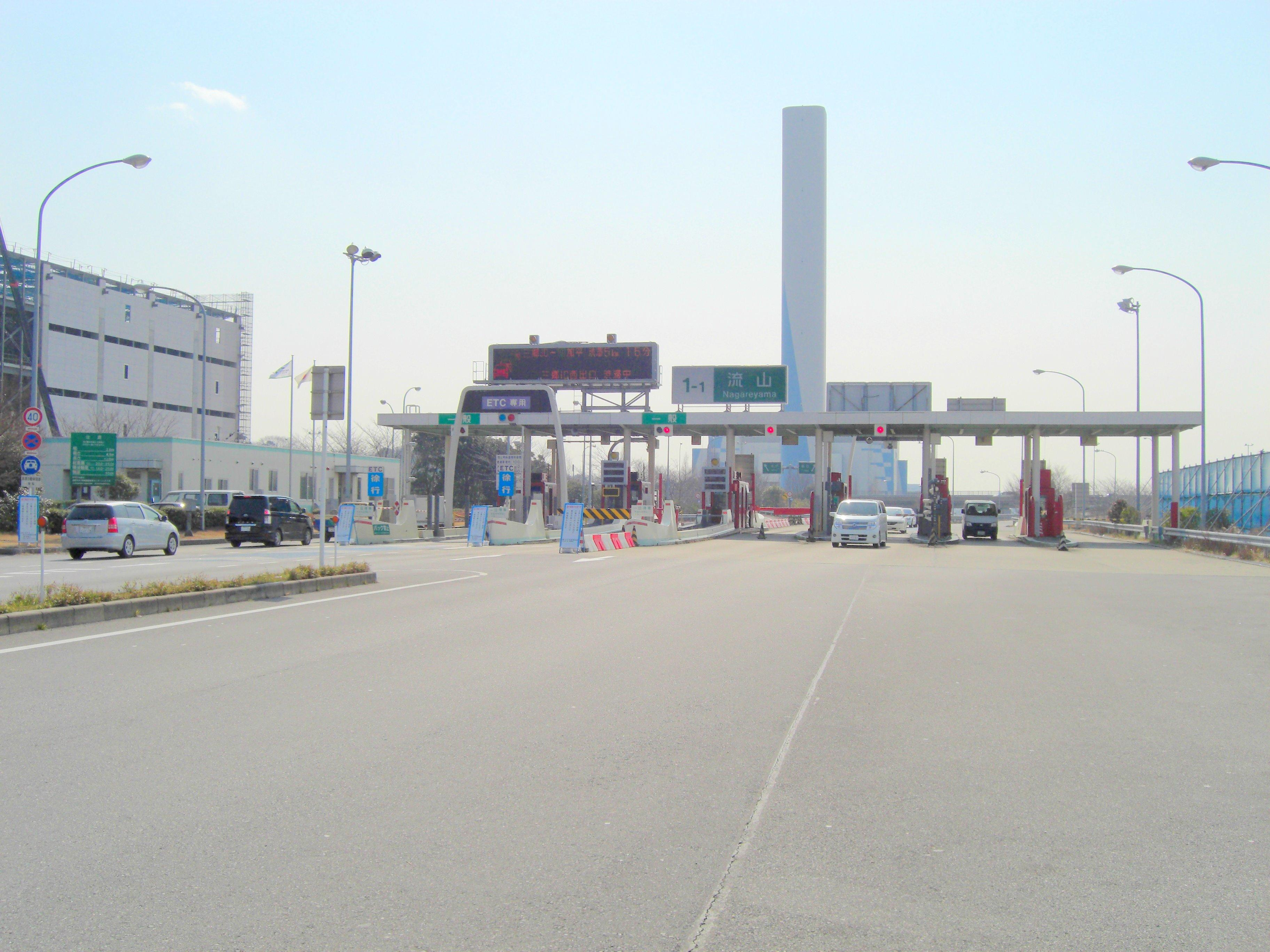 Nagareyama Interchange on the Joban Expressway